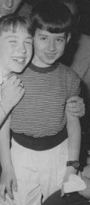 Pablo Calvo- actor